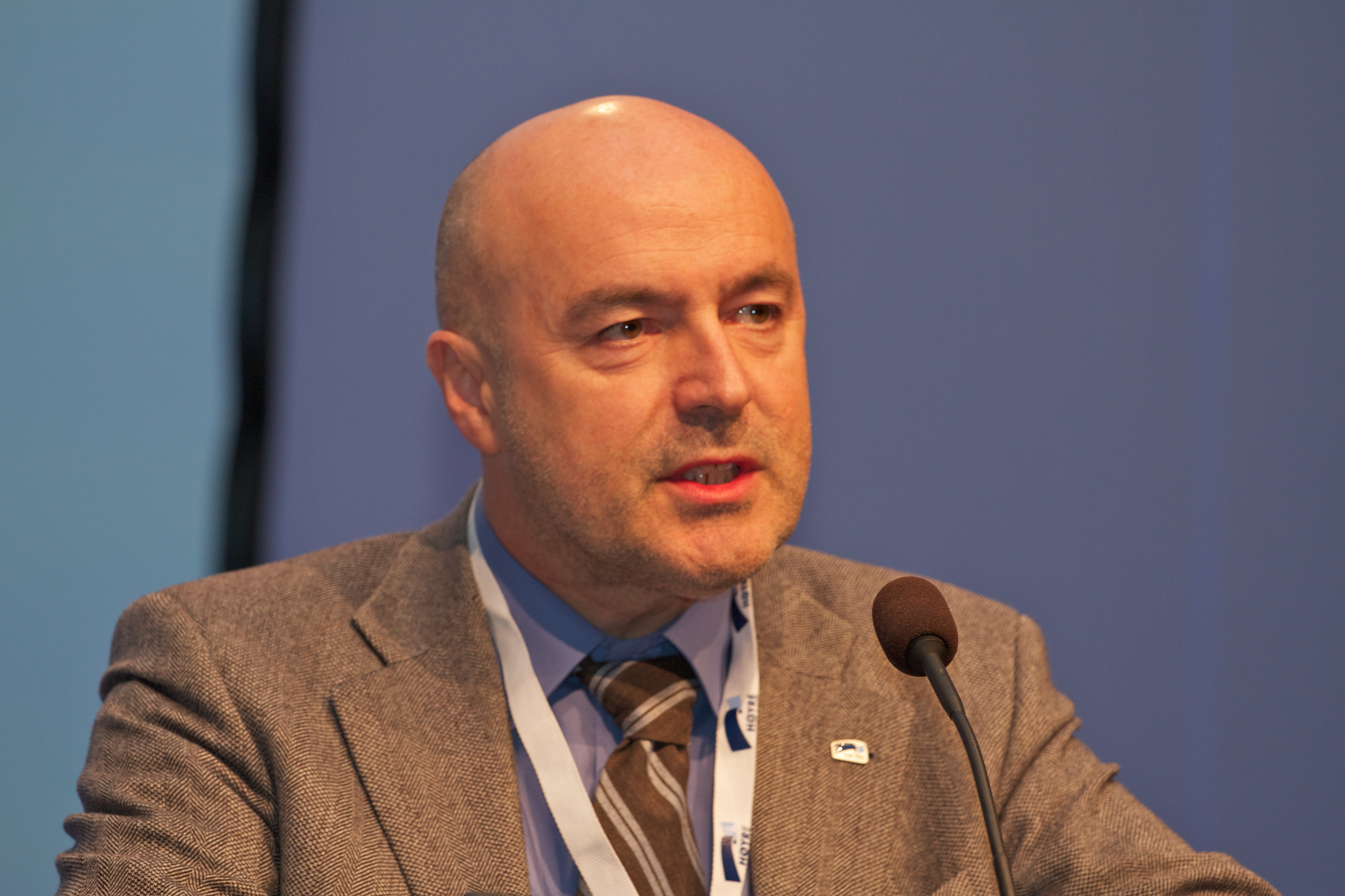 Ivar Kristiansen, Norwegian conservative politician.